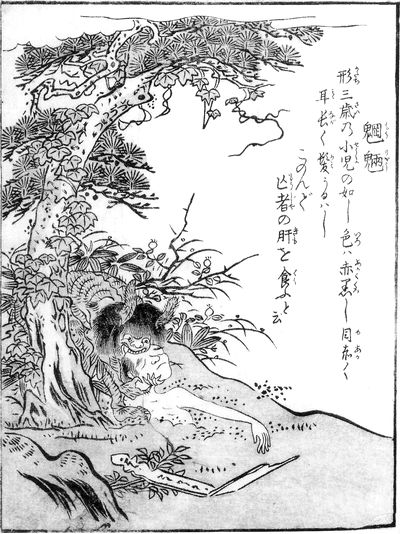 Mōryō (魍魎, a long-eared, corpse-eating spirit) from the Konjaku Gazu Zoku Hyakki (今昔画図続百鬼)